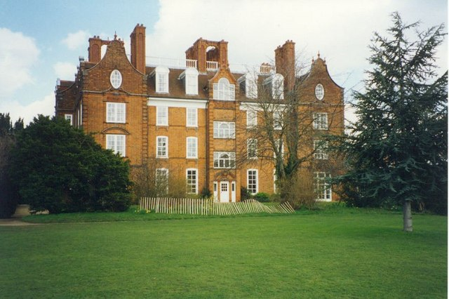 Old Hall, Newnham College